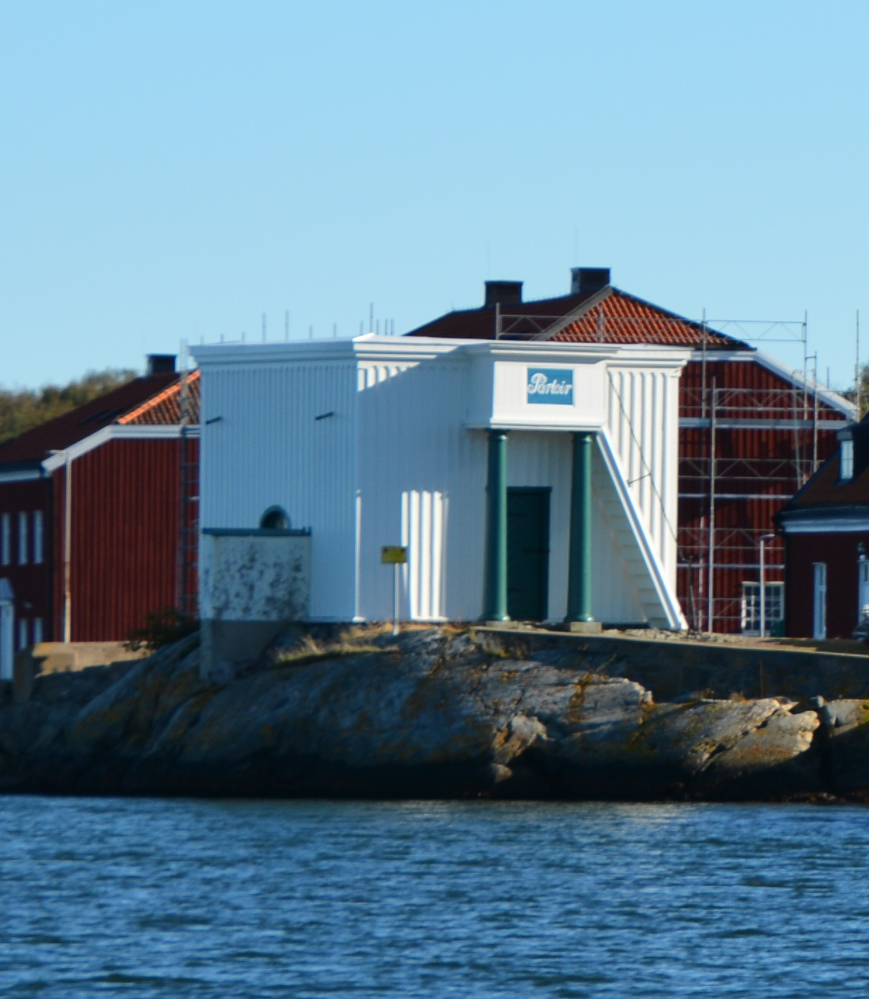 Parloiren, tidigare Känsö karantänstation